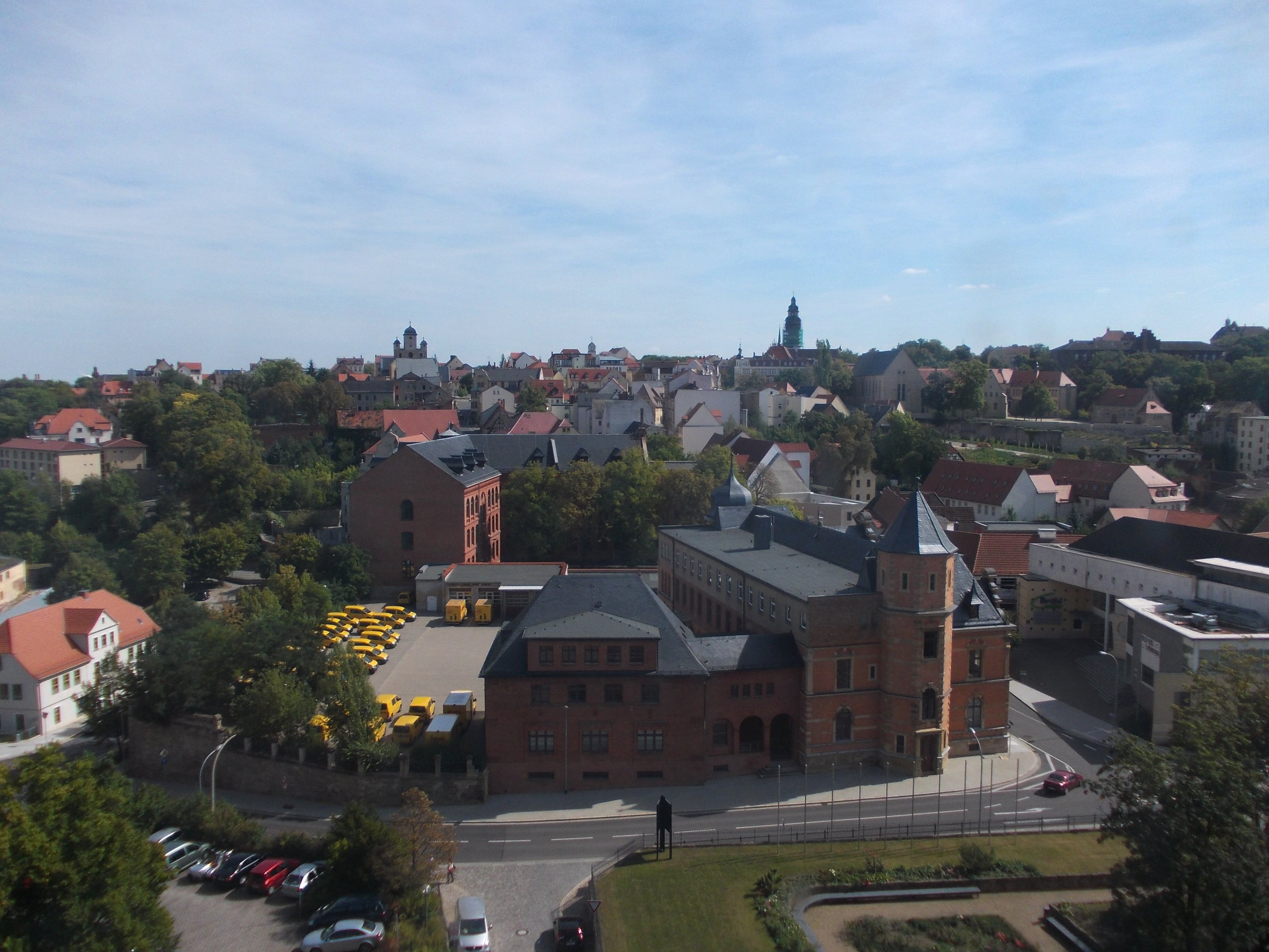 View of Zeitz from the gateway of Moritzburg Castle (district of Burgenlandkreis, Saxony-Anhalt)